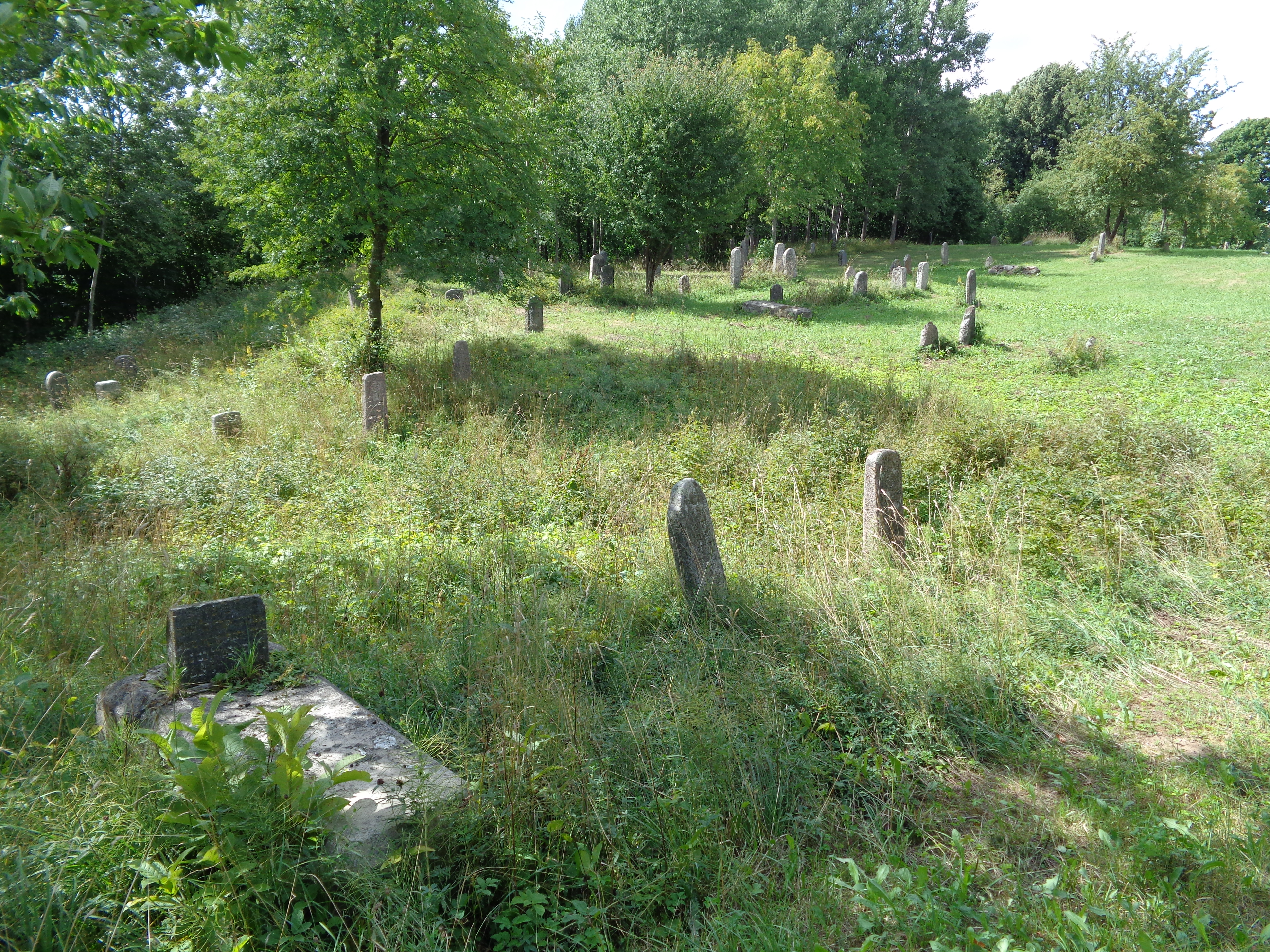 Lithuania. Kretinga. Jewish cemetery. Summer 2018